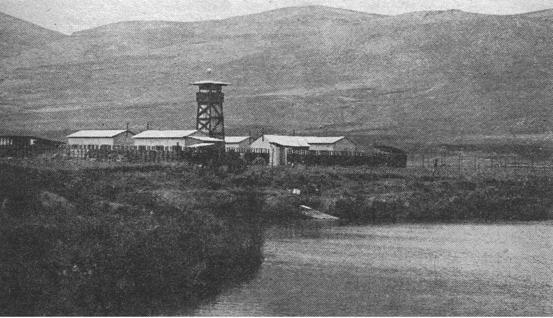 Nir David tower and stockade settlement. Original description: Kibbutz Nir-David in the early days.